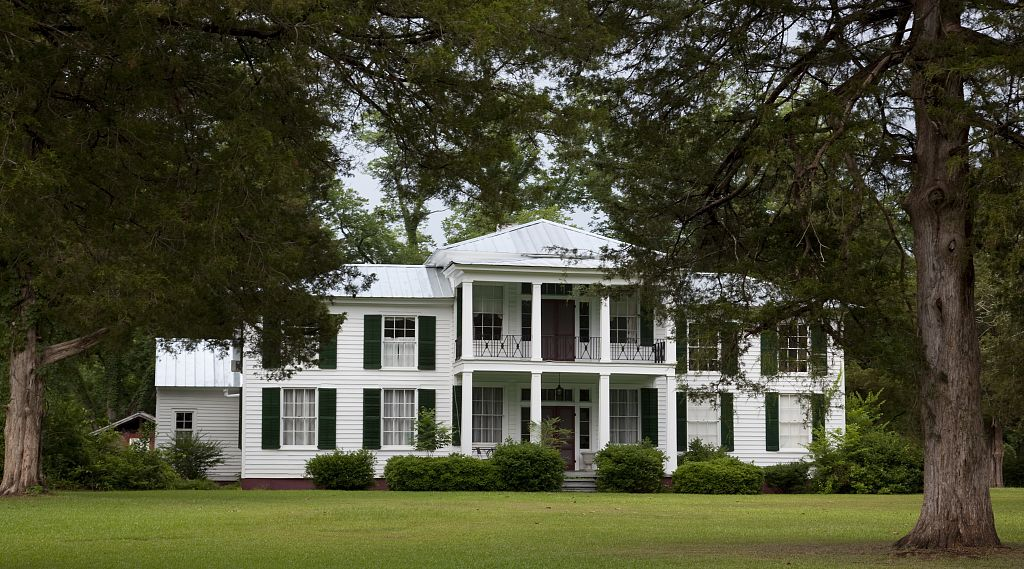 Historic buildings in Camden, Alabama. (The Beck Place, also known as the Beck-Creswell House, was built in 1855.)